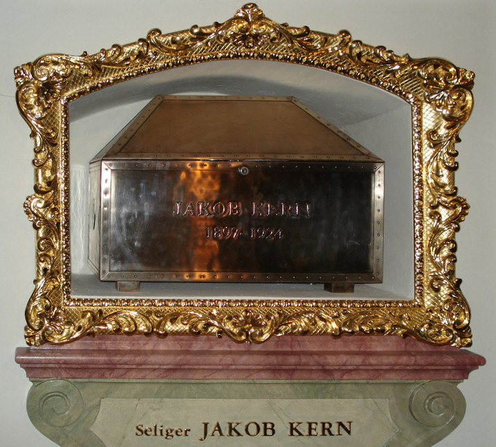 Reliquary of Jakob Kern in Stift Geras (Austria)